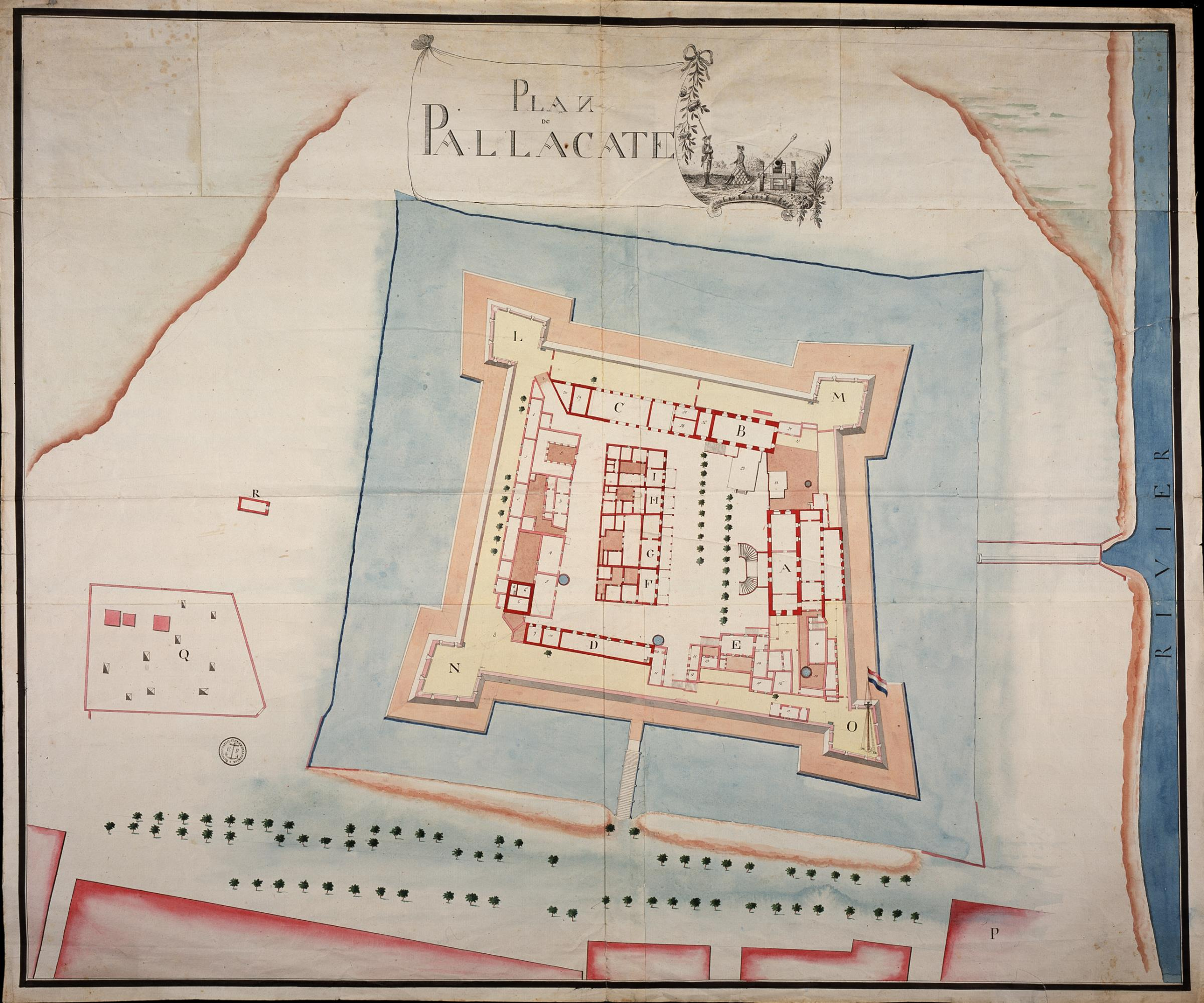 Title in the Leupe catalogue (NA): Plan de Paliacatte. Notes on reverse: No. 14 Plan van Pallacate. Register 6, Deel 1, Folio 28, Portefeuille .. [inscribed on a blue label] / No. 8. / behoord tot no. 45 of het rapport van rochede [the last word a name ? is unclear] / 590 [printed in bold on a small label] / no. 204.